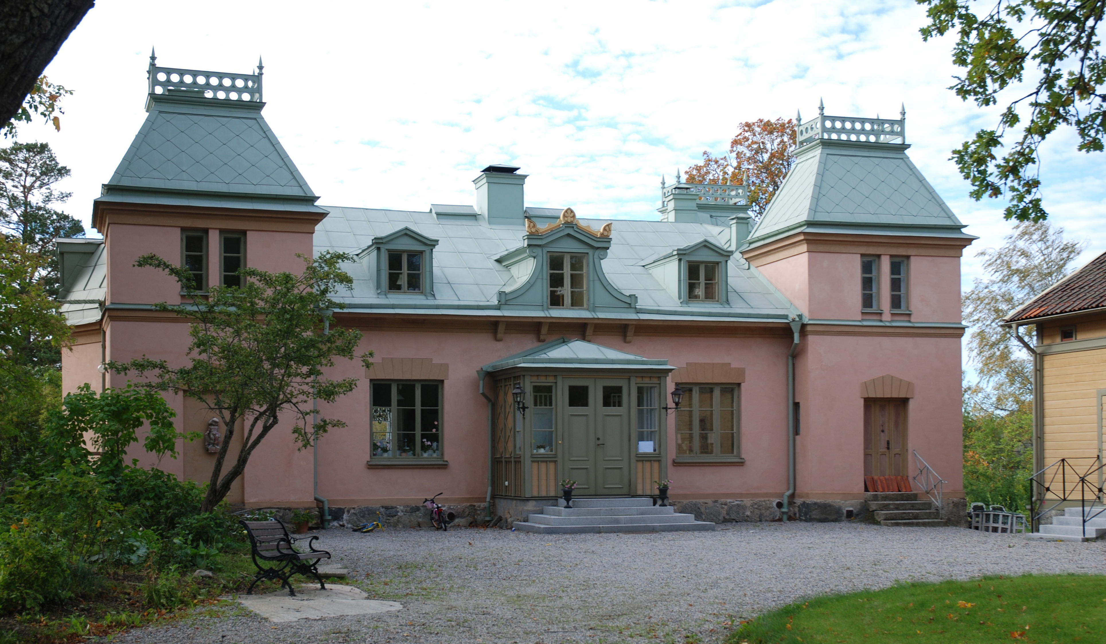 Spetebyhall mansion, near Katrineholm, Sweden